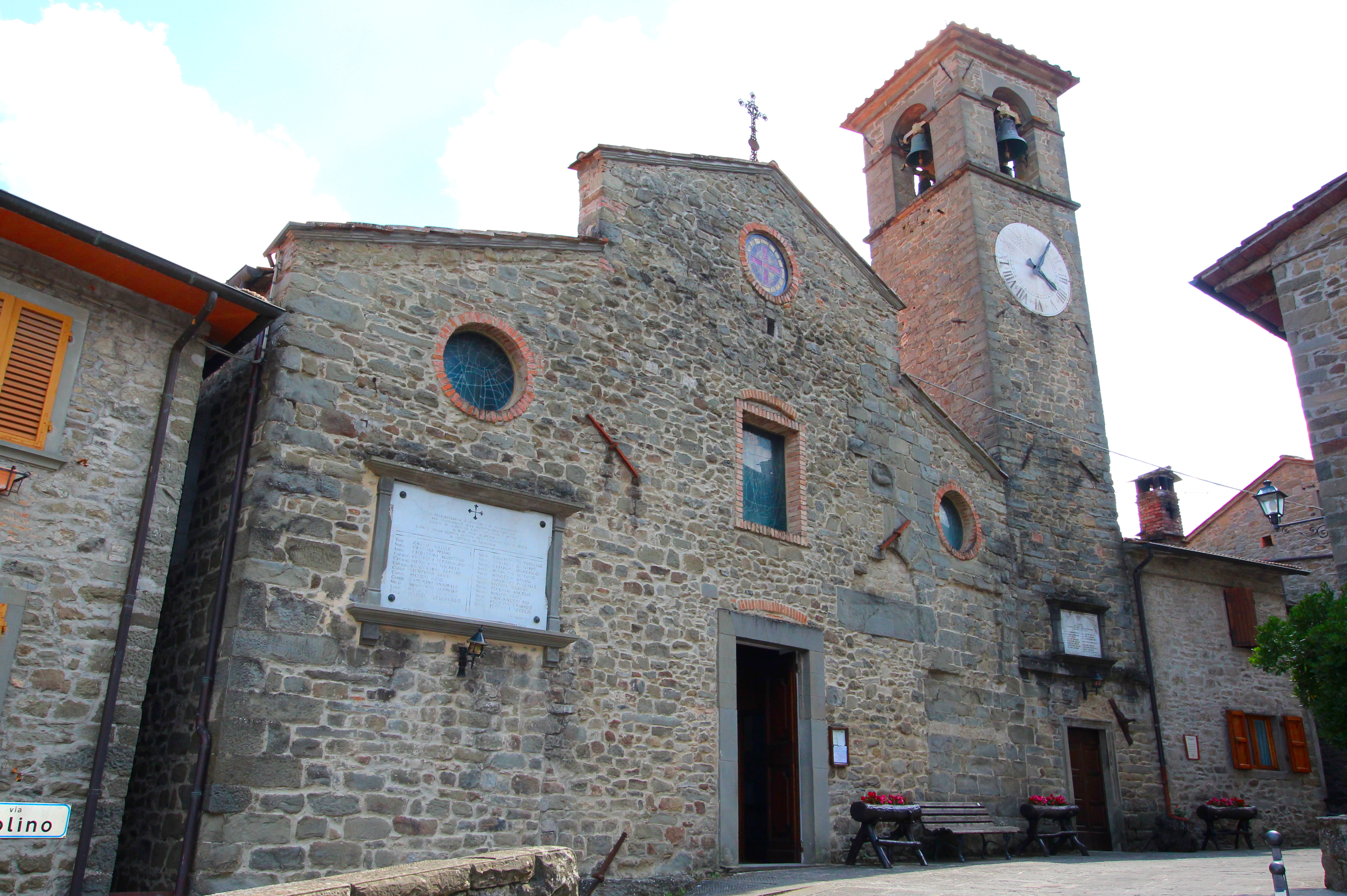 Church San Michele, in Raggiolo, hamlet of Ortignano Raggiolo, Province of Arezzo, Tuscany, Italy